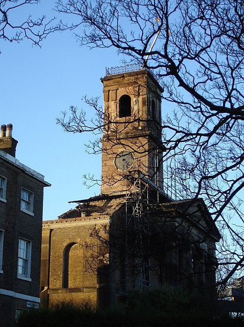 Dockyard Church, Bluetown, Sheerness. This imposing neo-classical building seems to have suffered a fairly recent fire and is currently clad in scaffolding. History repeats itself, in the 1880s a contemporary report says "The H.M.Dockyard church caught fire. ... A gale was raging at the time. An hour or two before the outbreak of the fire the streets were almost deserted. A vessel was ashore on the Red Sands with men clinging to the rigging. The fire was possibly started by the heating apparatus, some sparks were blown under the slates and ignited the material there about 8.30 or 9pm. The Dockyard Chapel as it was called was on fire. The parapet crashed down at 11pm burying four men, one Pembroke Marsnew, was crushed to death." See also 110446 and 110458